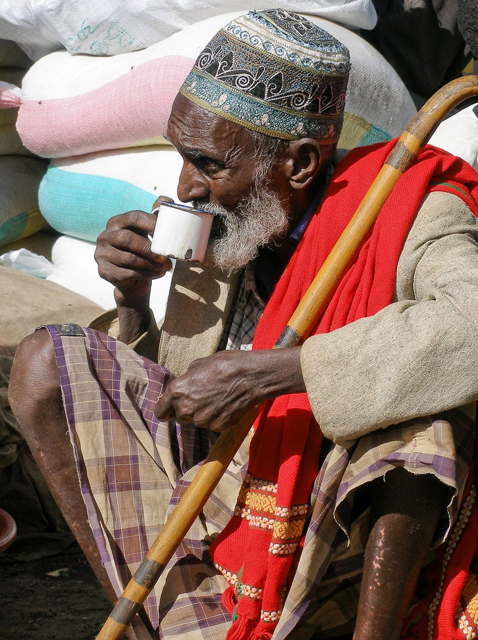 Old man in Harar, Ogaden.